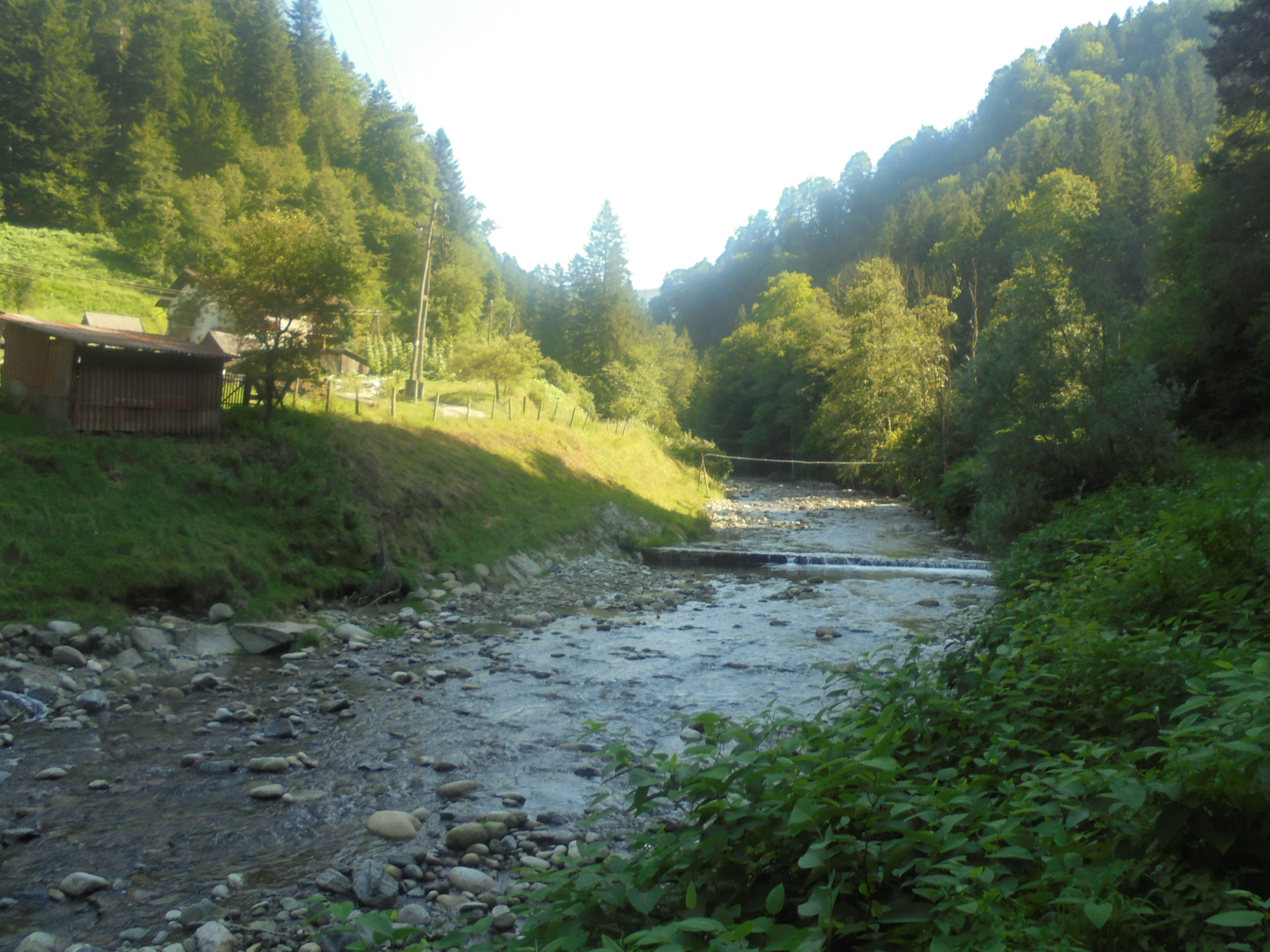 River Radoljna in Puščava